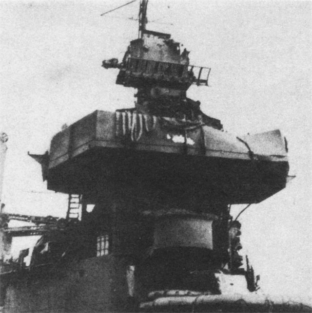 Damage to "Battle II" and "Sky Aft" sections of the U.S. Navy heavy cruiser USS San Francisco (CA-38) as a result of actions during the Naval Battle of Guadalcanal, on 12 and 13 November 1942. The photo was taken shortly after the battle.